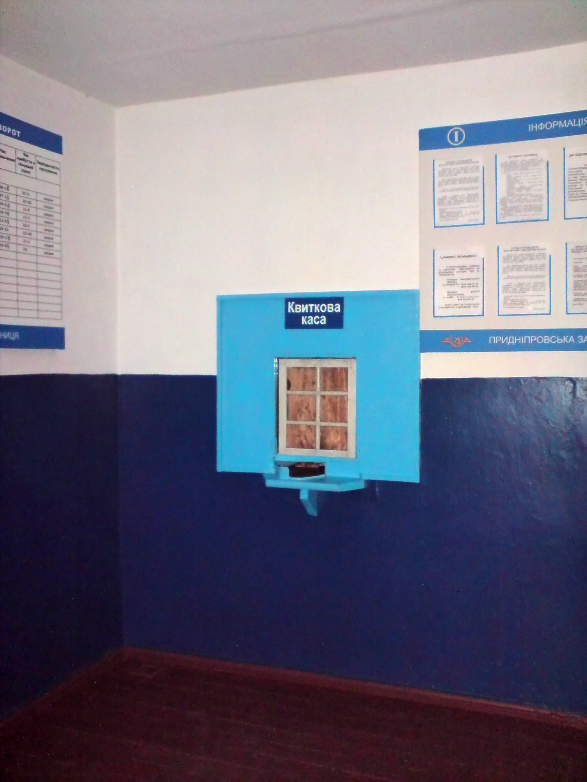 Privorot_station_inside